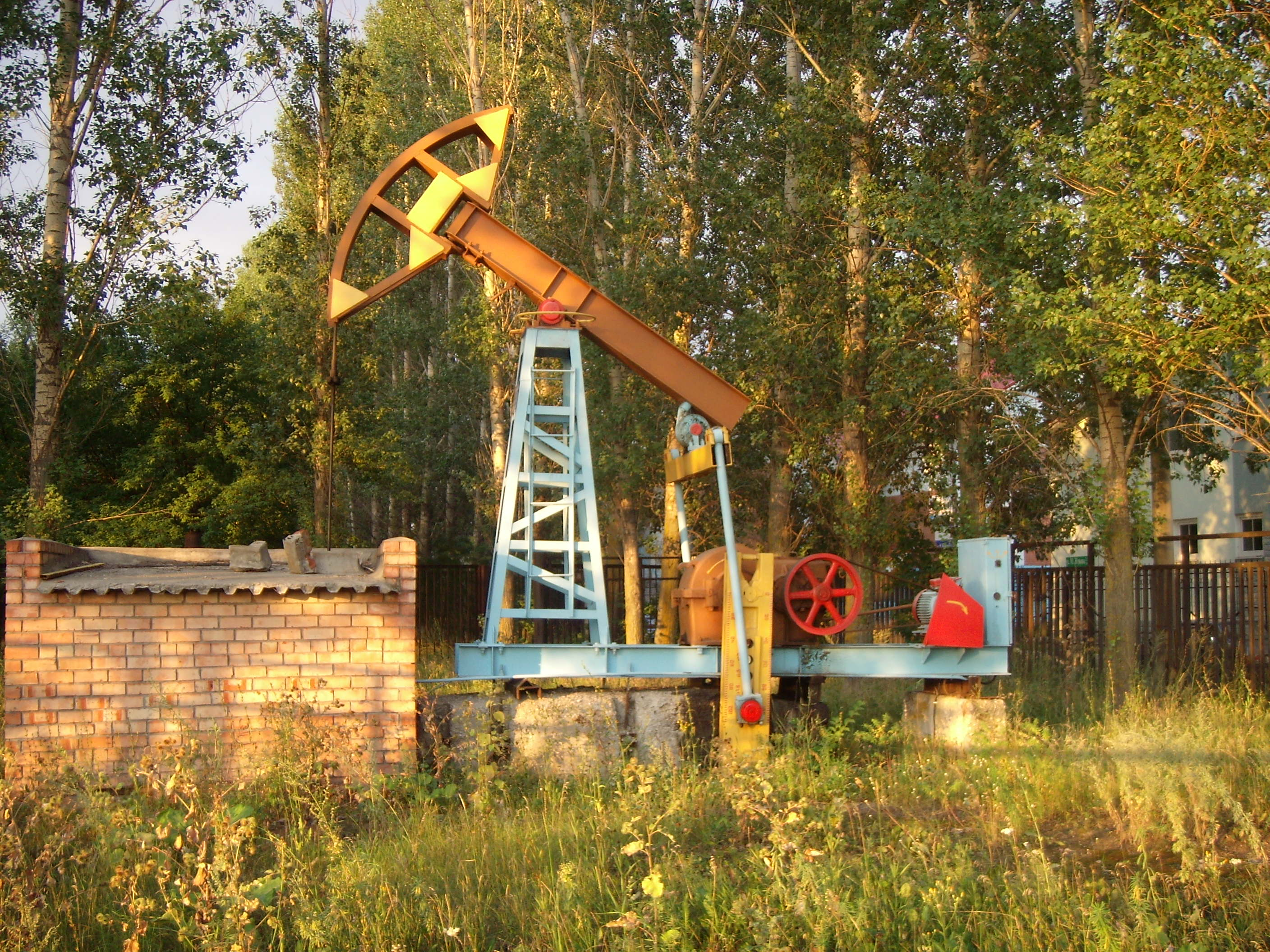 Oil pumpjack, Togliatti, Russia